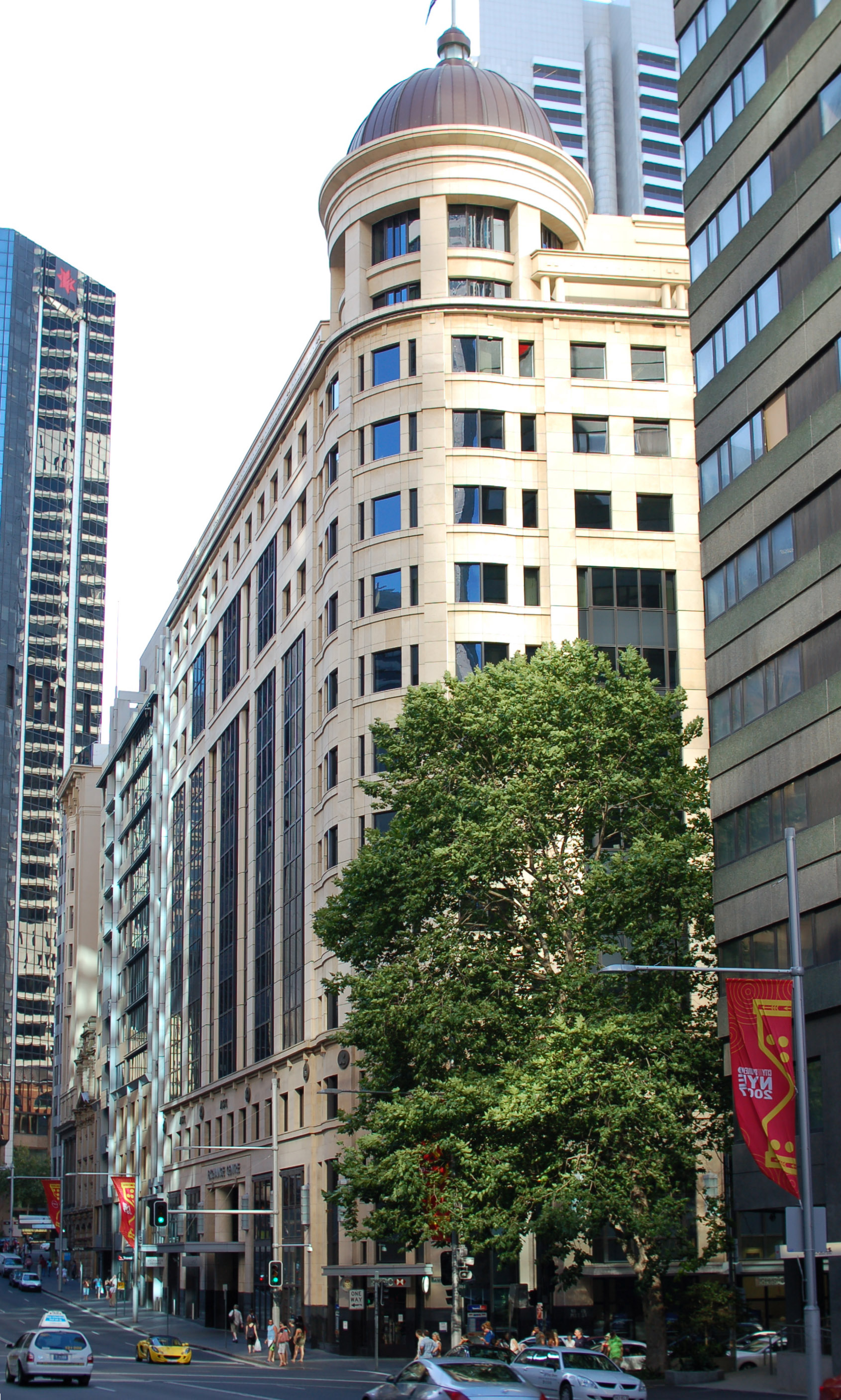 Sydney Exchange Centre